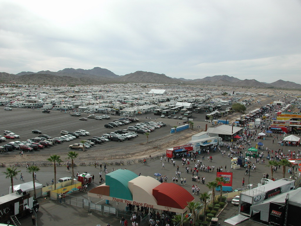 Motorhomes as far as the eye can see